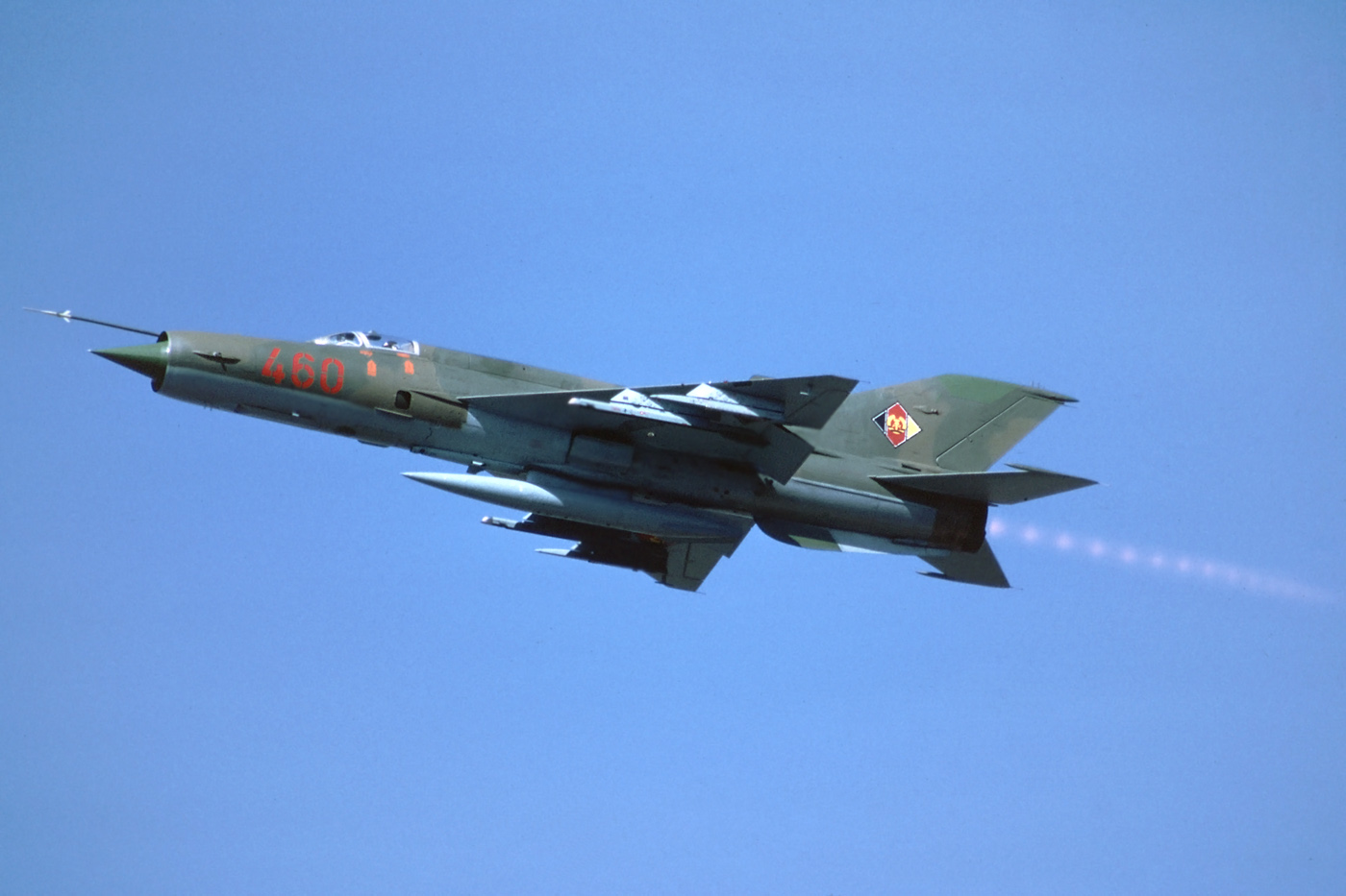 A MiG-21MF of Jagdfliegergeschwader 1 (JG-1) taking off from Holzdorf in August 1990. Many MiG-21's were saved and are on display somewhere, but 460 was scrapped.